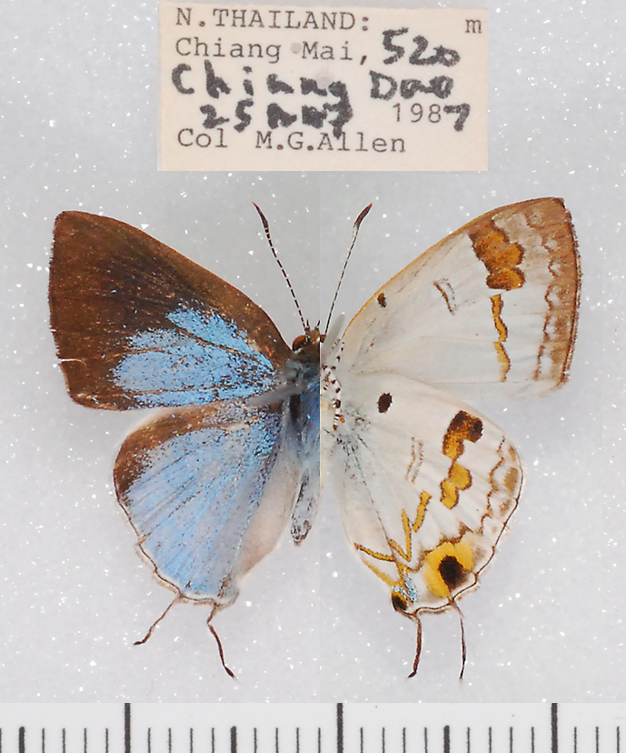 Hypolycaena othona, male, Thailand, Alan Cassidy photo.